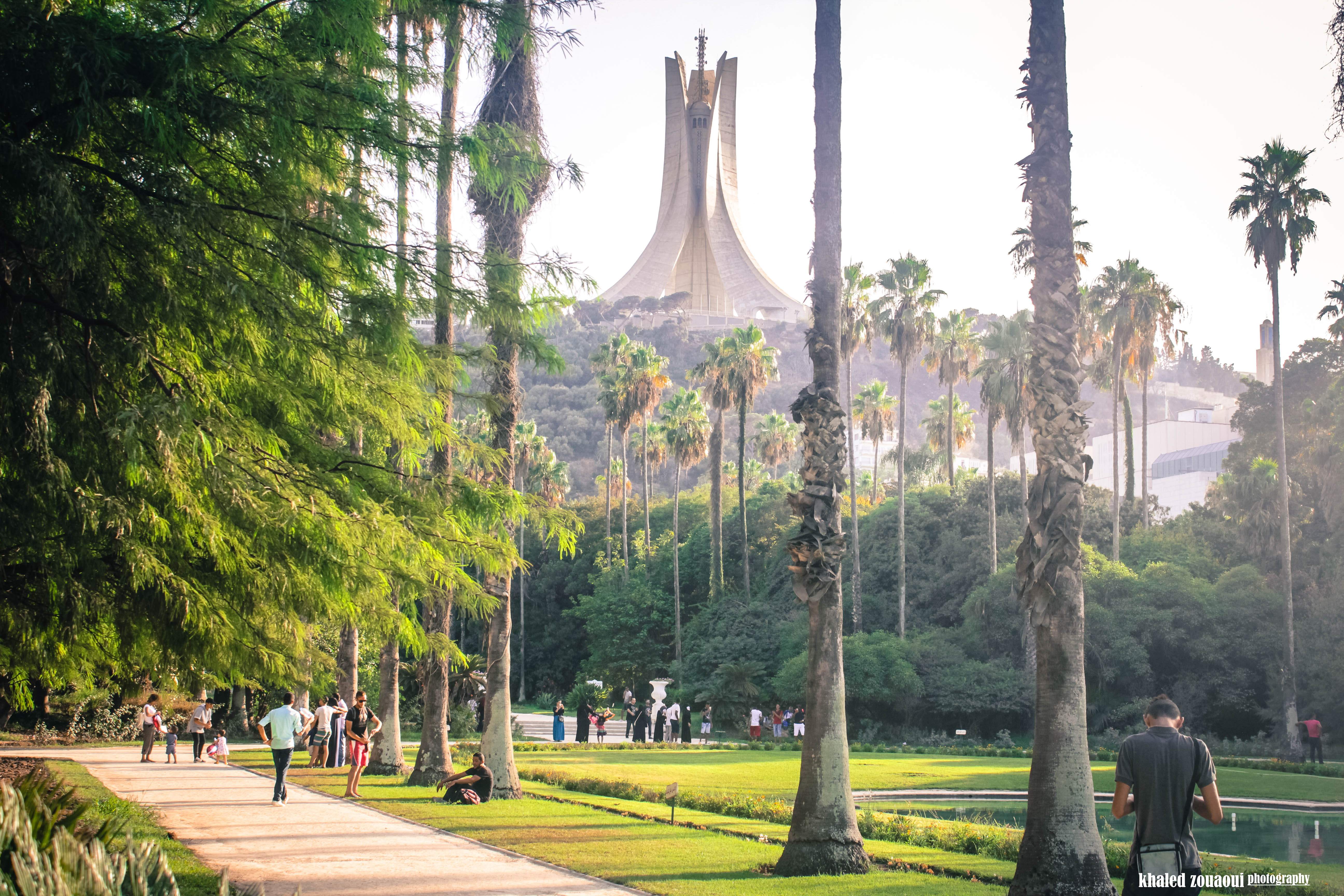 The Botanical Garden of Hamma, also known as The Test Garden Hamma is a 58-hectare (140-acre) botanical garden (38 hectares (94 acres) of gardens and 20 hectares (49 acres) of arboretum) located in the Mohamed Belouizdad (formerly Hamma-Anassers) district of Algiers. It was established in 1832 and is now still considered one of the most important botanical gardens in the world.